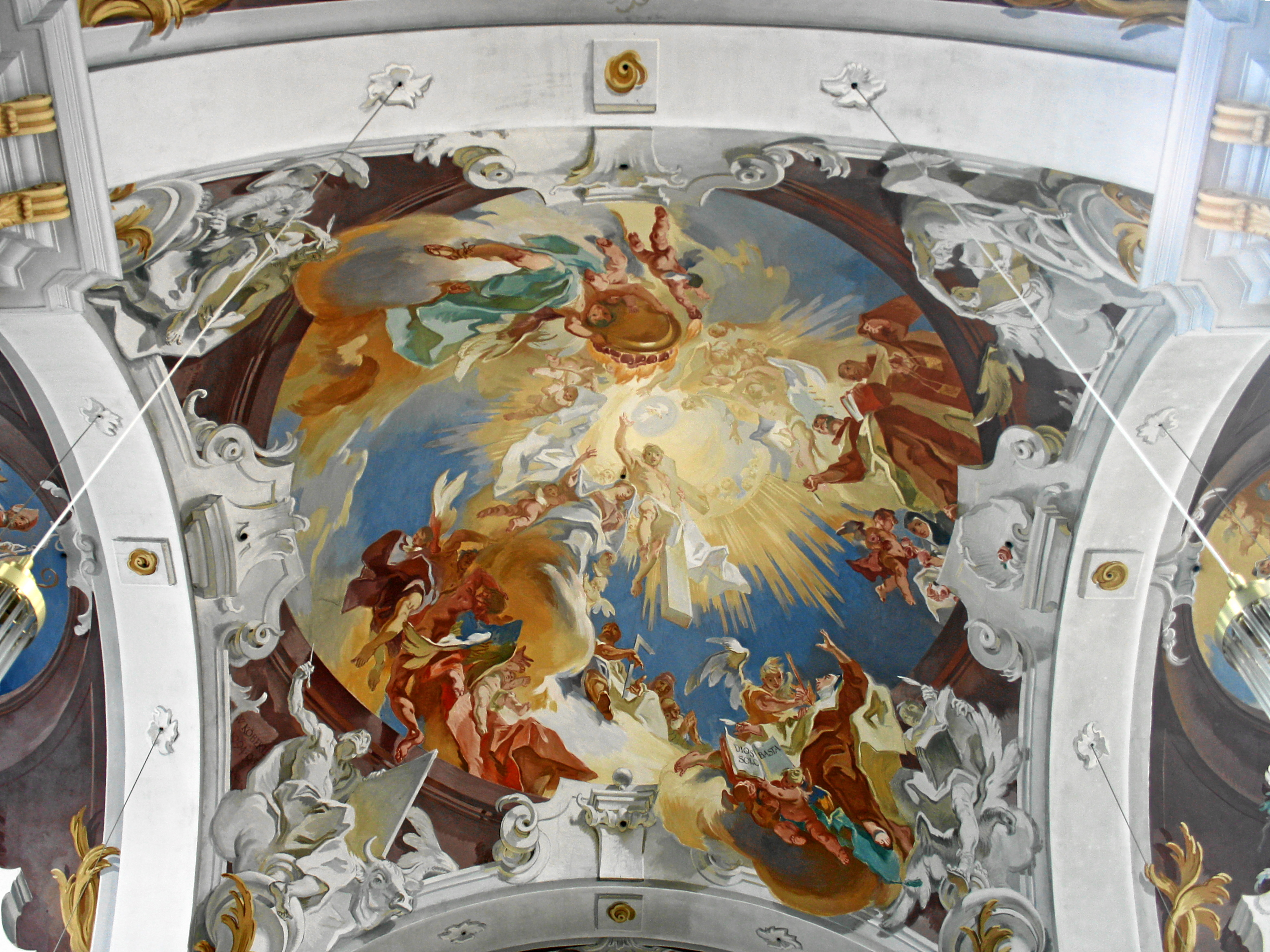 Düsseldorf, Germany. Roman-catholic chapel Saint Joseph, painted ceiling.